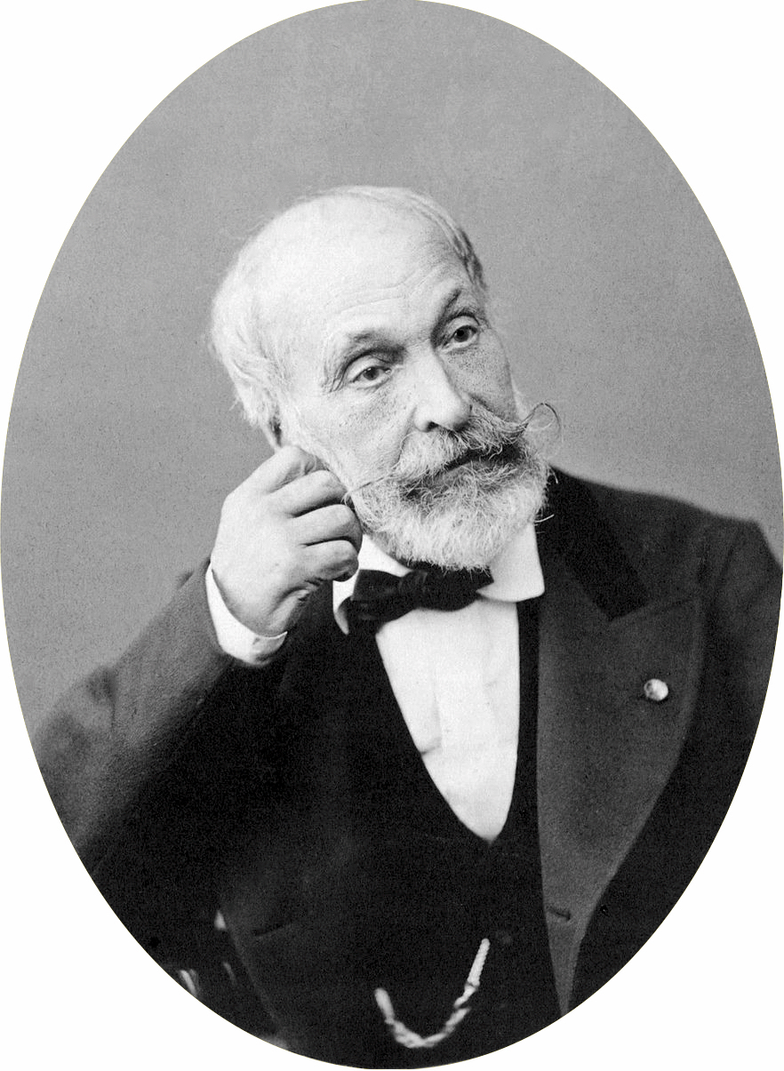 Philarète Chasles (1798-1873), historian of the literature and librarian at the Bibliothèque Mazarine (1837-1873)